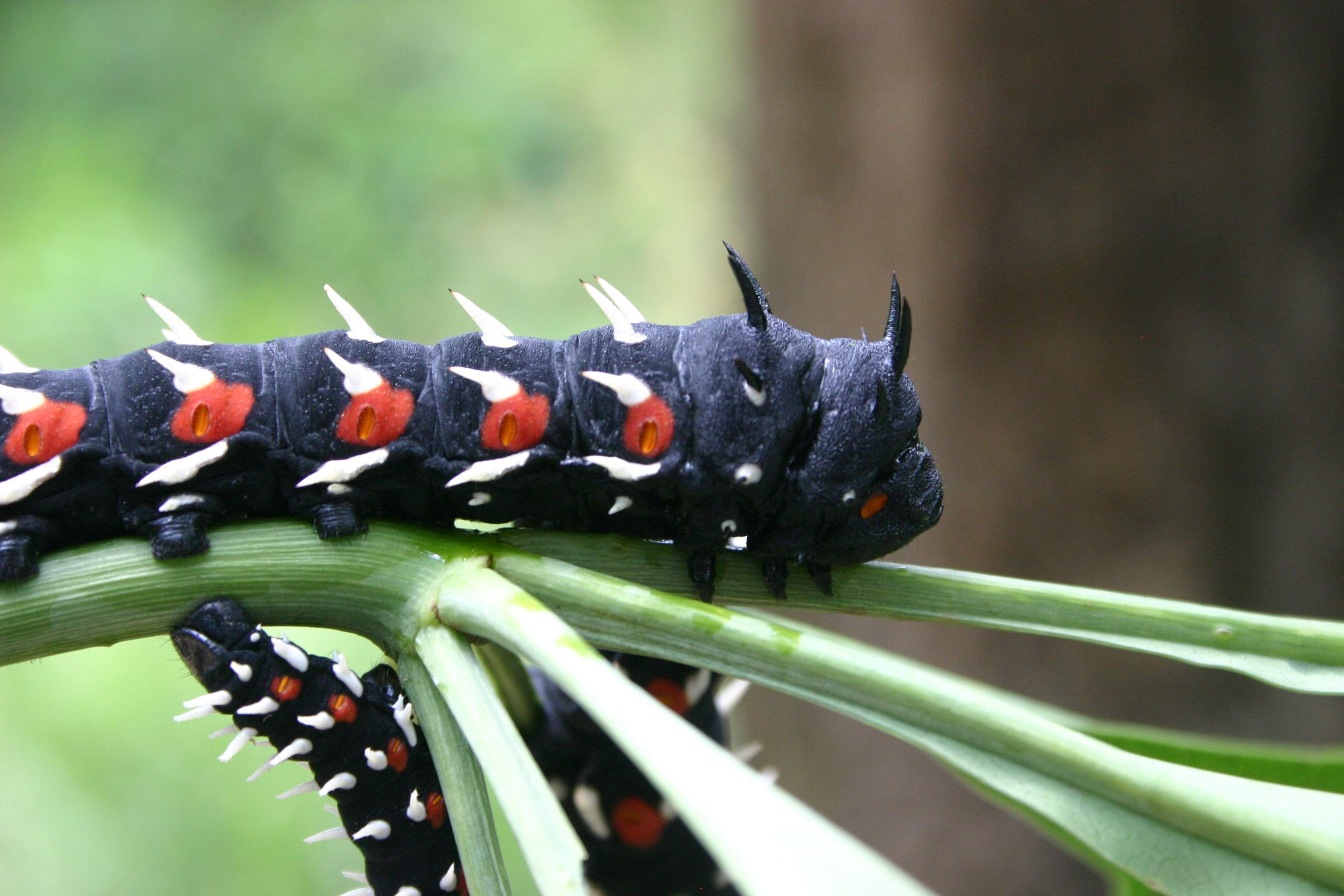 Bunaea alcinoe larvae feeding on Cussonia sphaerocephala - Johannesburg garden